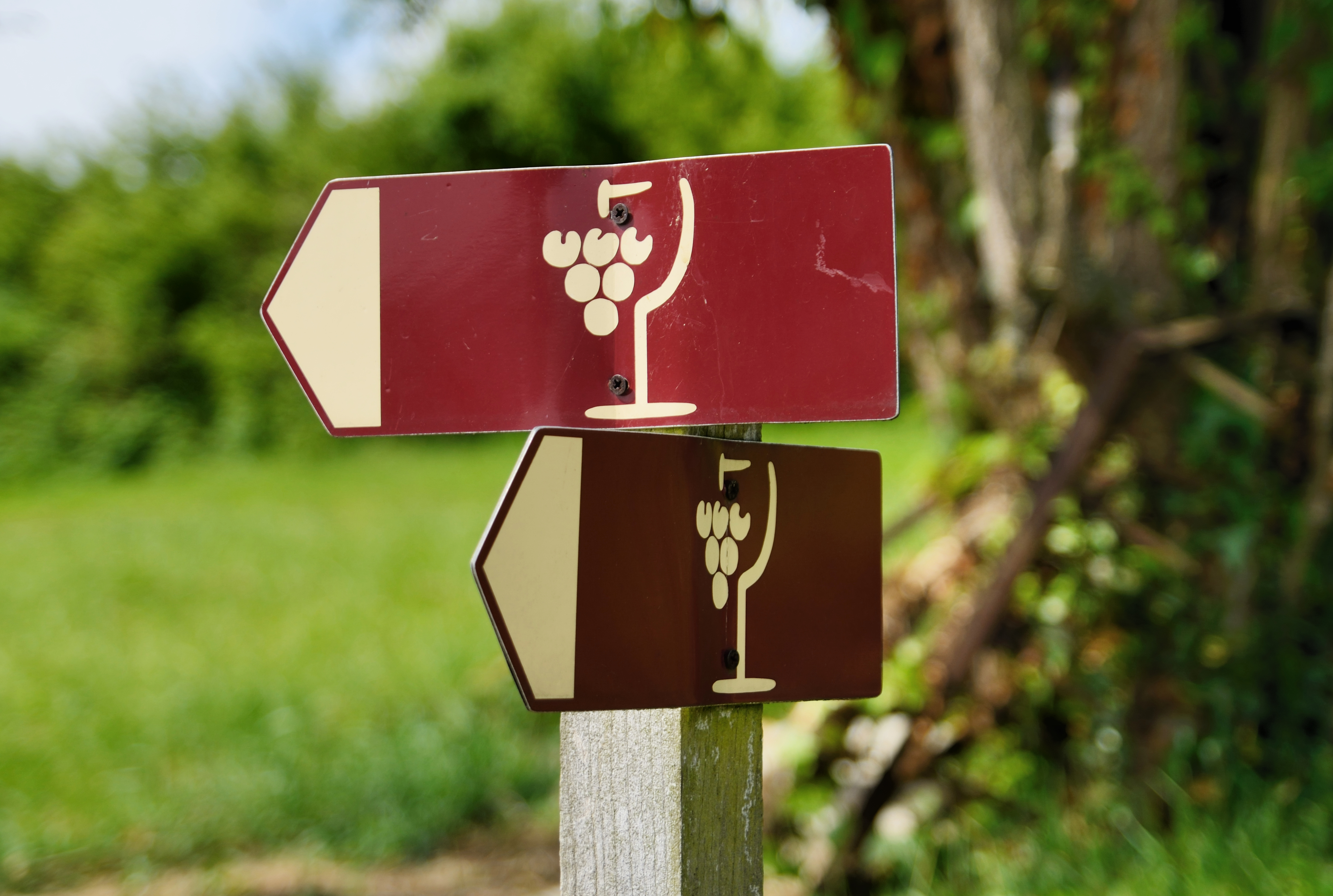 Lörrach-Tüllingen: direction sign of wine route